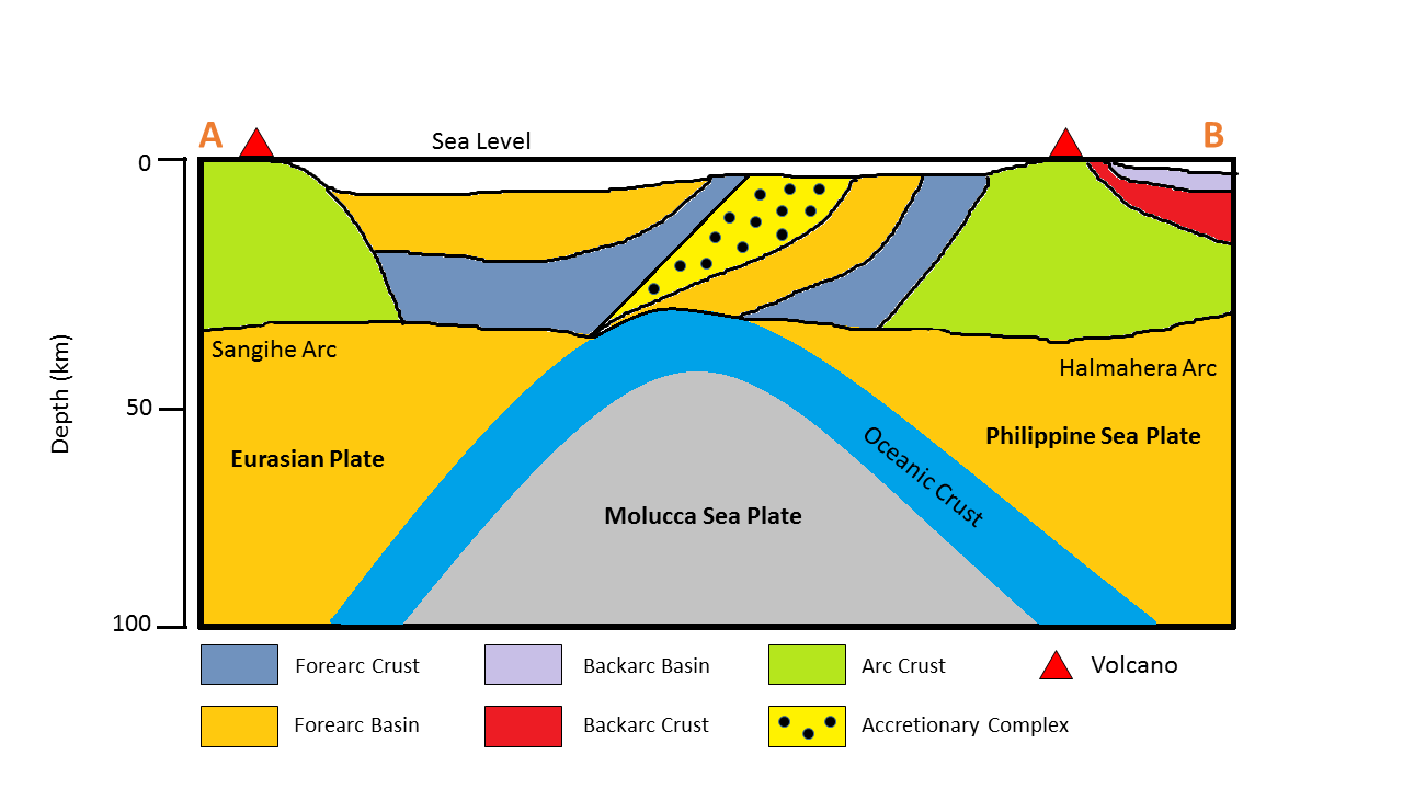 Inspired by Zhang, Q., F. Guo, L. Zhao, and Y. Wu